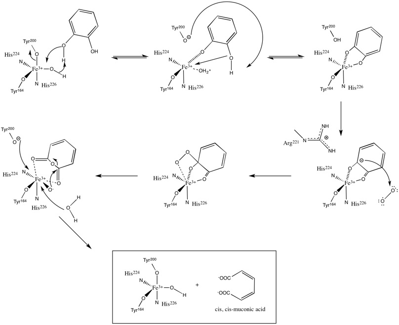 The detailed mechanism of the oxidative ring cleavage of catechol by catechol 1,2-dioxygenase